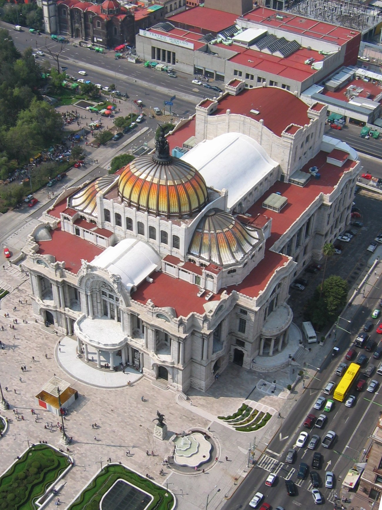 Palacio de Bellas Artes as seen from the top of the nearby Torre Latinoamericana, in downtown Mexico City.